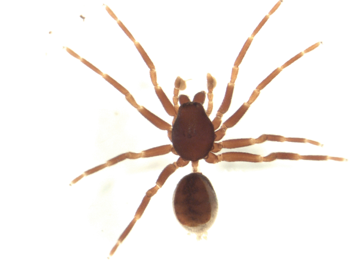 adult male Duripelta sp.